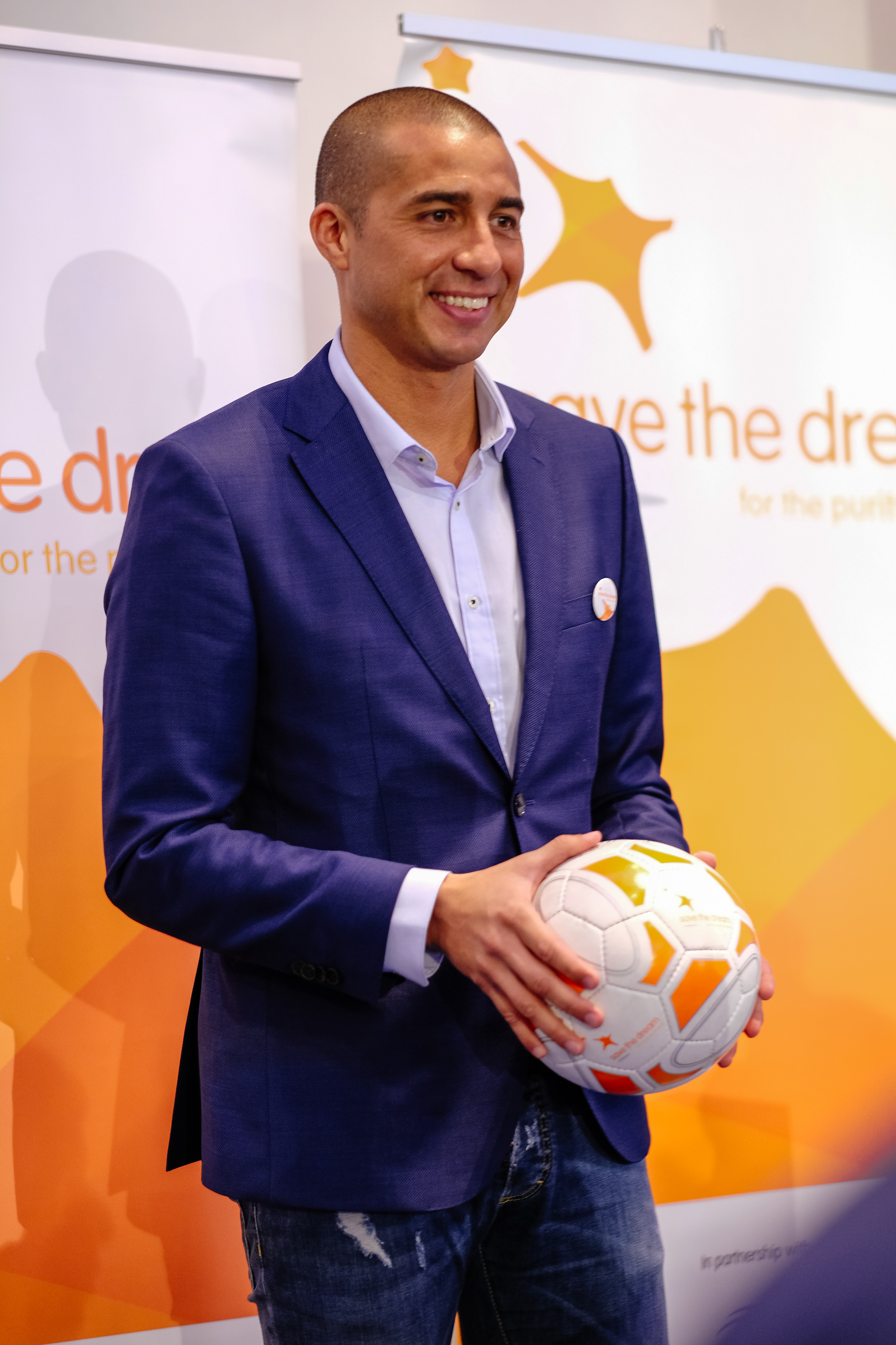 Save the Dream joined forces with Al Kass to host a special workshop. At the conclusion of the workshop, Massimiliano Montanari, Executive Director – Save the Dream, also announced that David Trezeguet has been appointed as a new ambassador for Save the Dream, which will see the Juventus legend promote the positive values of sport to young people at various Save the Dream workshops and activities around the world.